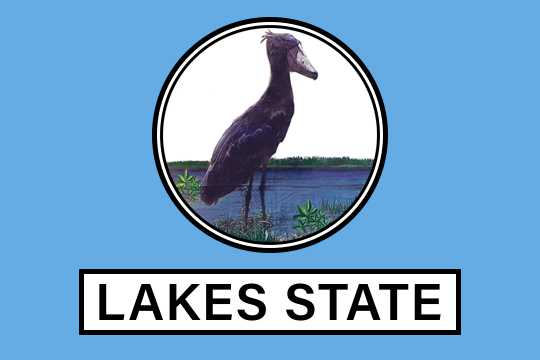 State flag of Lakes in South Sudan and formerly Sudan.